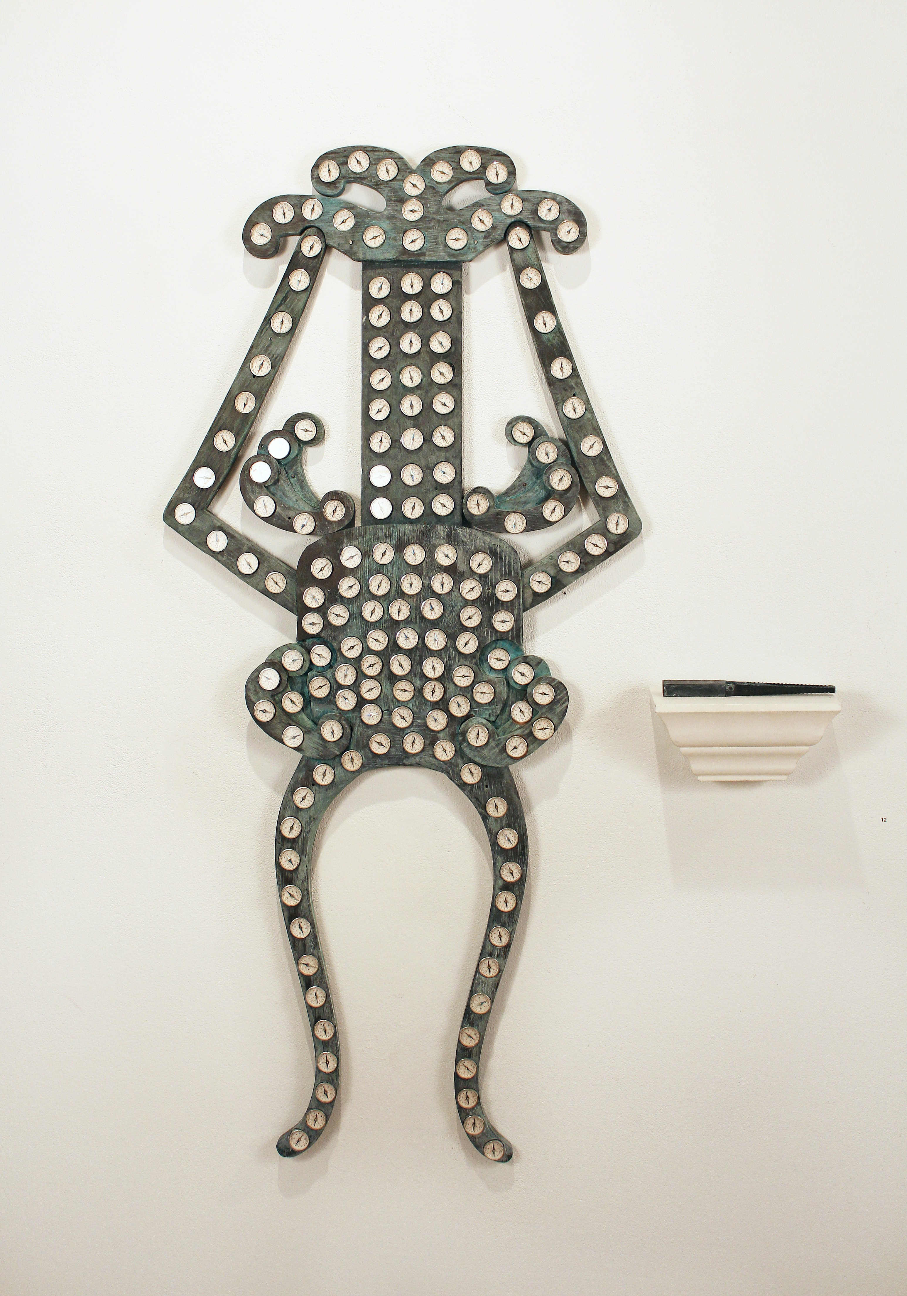 Photo of "Bipolar", a piece by Margaret Wharton